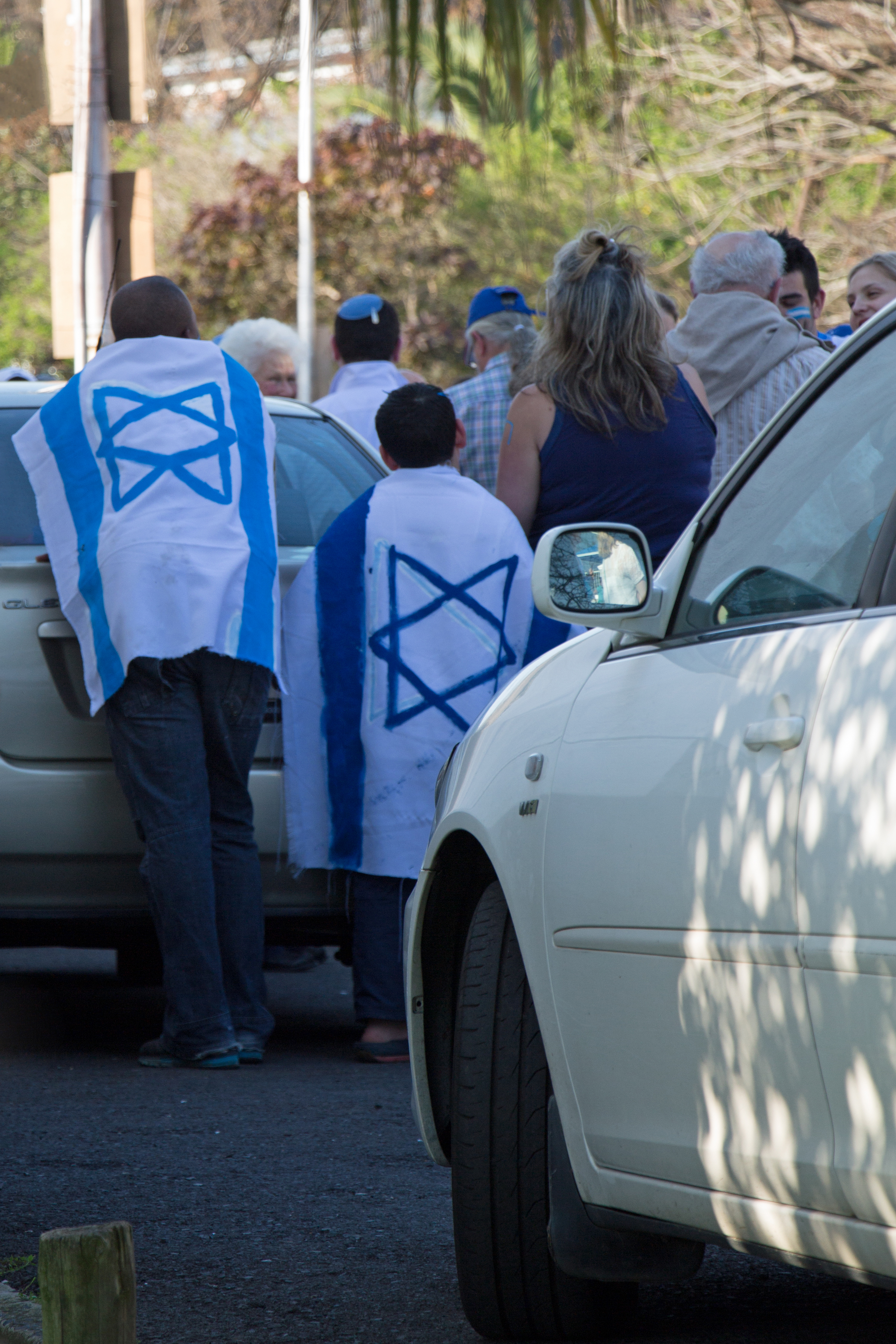 2014 Israel–Gaza conflict: On Saturday 9 August 2014, the National Coalition for Palestine called a pro-Palestine march in Cape Town. On the following day, the South African Zionist Federation held a Solidarity Rally for Israel in Hatfield Street in Cape Town, and pro-Palestine protesters came out again to show their support for Palestine. These Israel supporters were photographed in Hatfield Street. (News article)